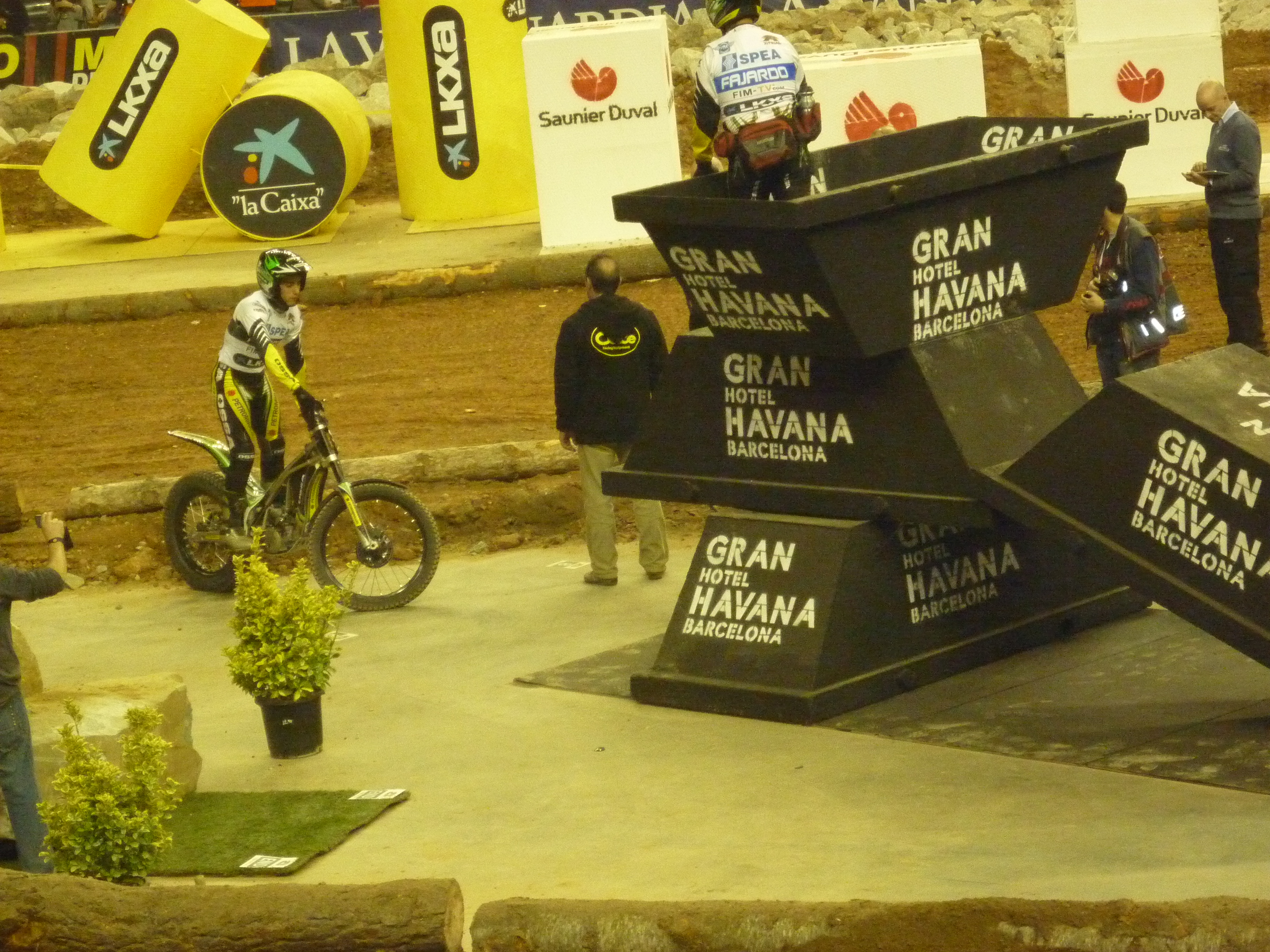 Jeroni Fajardo (Ossa) at Palau Sant Jordi (Barcelona, Catalonia) during the XXXIV Trial Indoor de Barcelona.